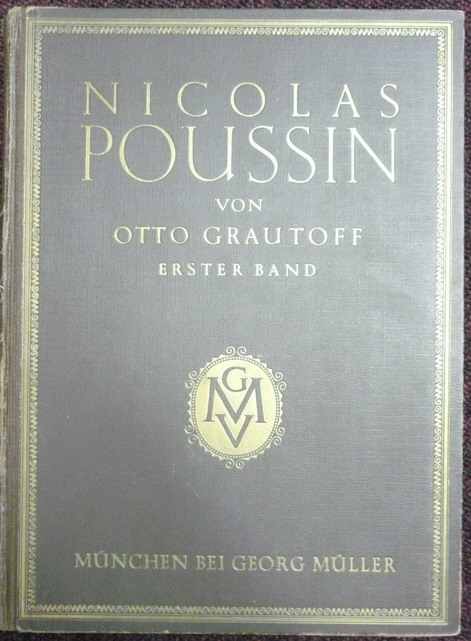 Ouvrage de Grautoff sur Poussin . couverture